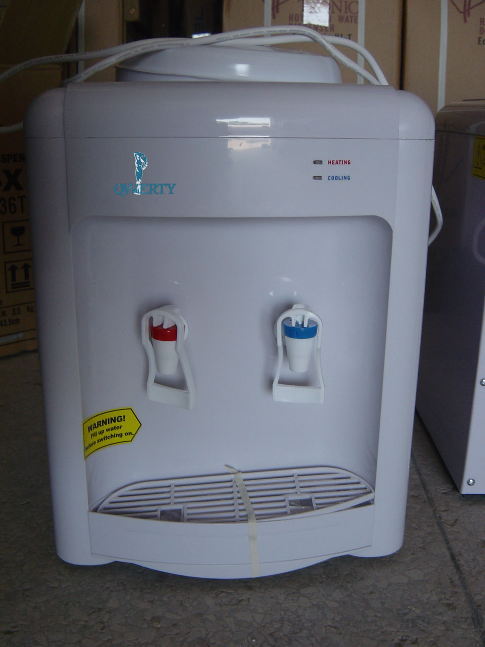 own work